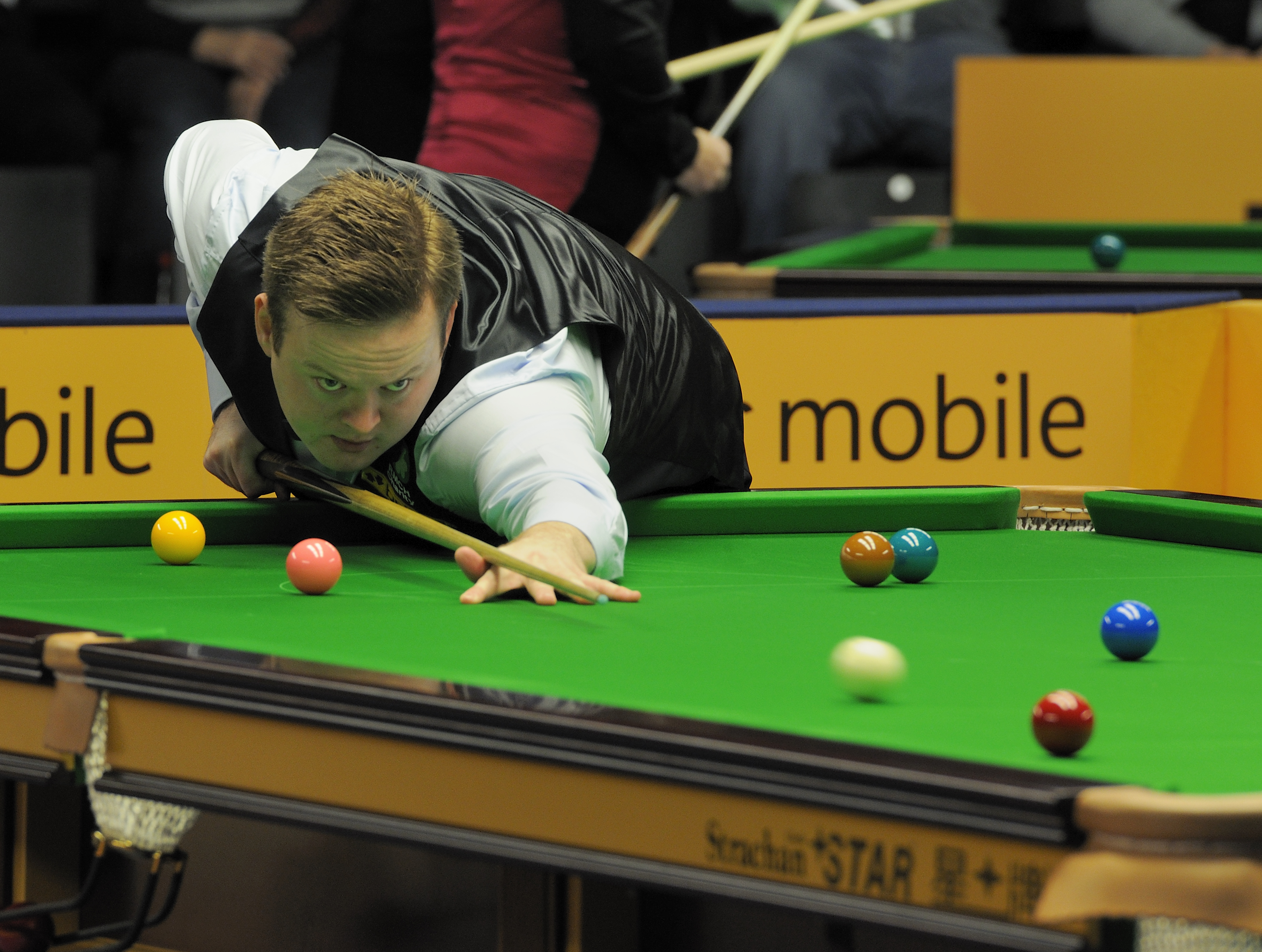 Picture taken in Berlin during the Snooker German Masters in 2013. Shaun Murphy.